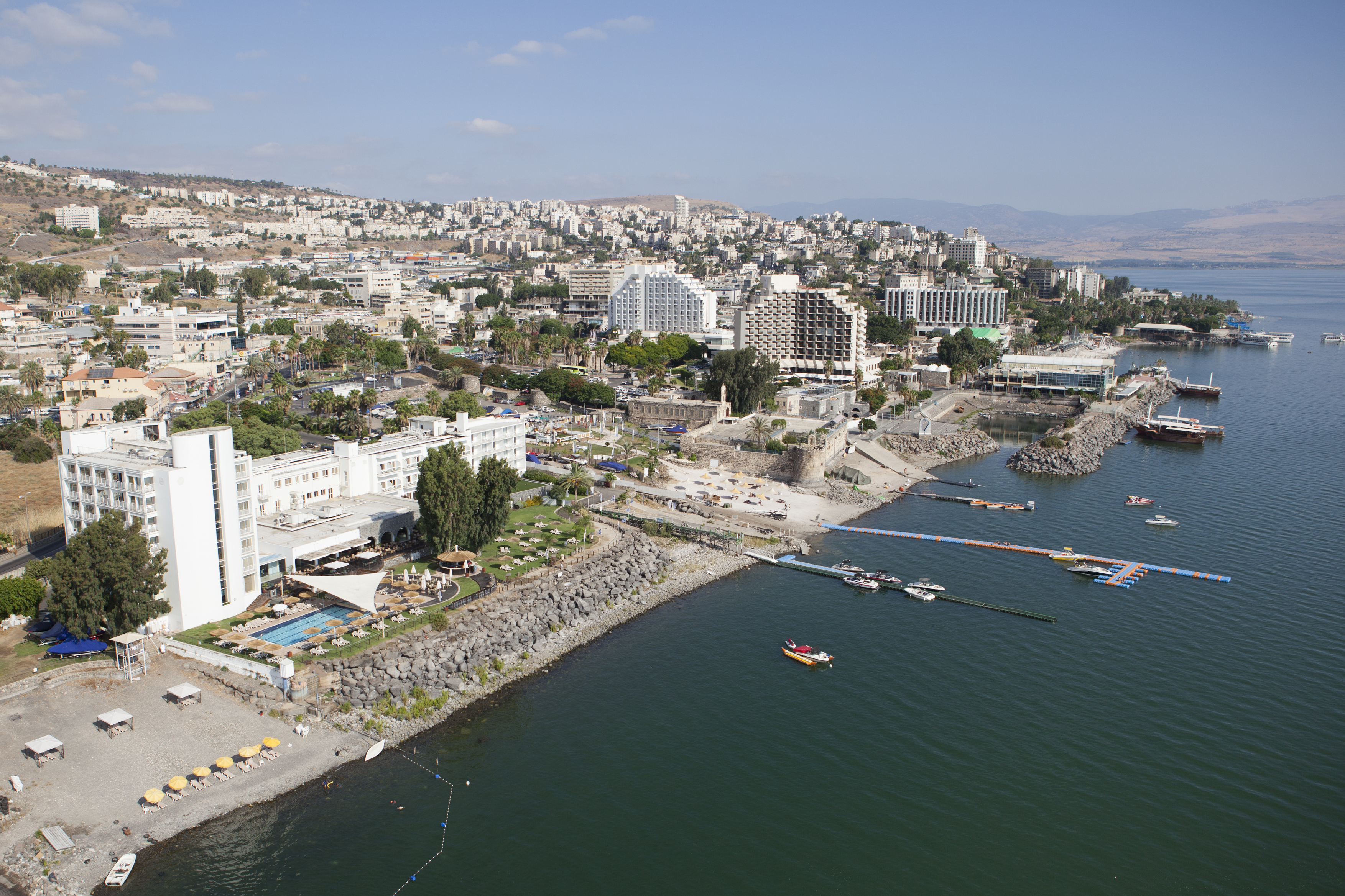 Tiberias is a city on the western shore of the Sea of Galilee in the Lower Galilee. Established in 20 CE, it was named in honour of the emperor Tiberius.Tiberias has been venerated in Judaism since the middle of the 2nd century CE and since the 16th century has been considered one of Judaism's Four Holy Cities, along with Jerusalem, Hebron and Safed.In the 2nd-10th centuries, Tiberias was the largest Jewish city in the Galilee and the political and religious hub of the Jews of Palestine. According to Christian tradition, Jesus performed several miracles in the Tiberias district, making it an important pilgrimage site for Christians. Tiberias has historically been known for its hot springs, believed to cure skin and other ailments, for thousands of years.The picture shows an aerial view of the city. Photo by Itamar Grinberg. Tiberias